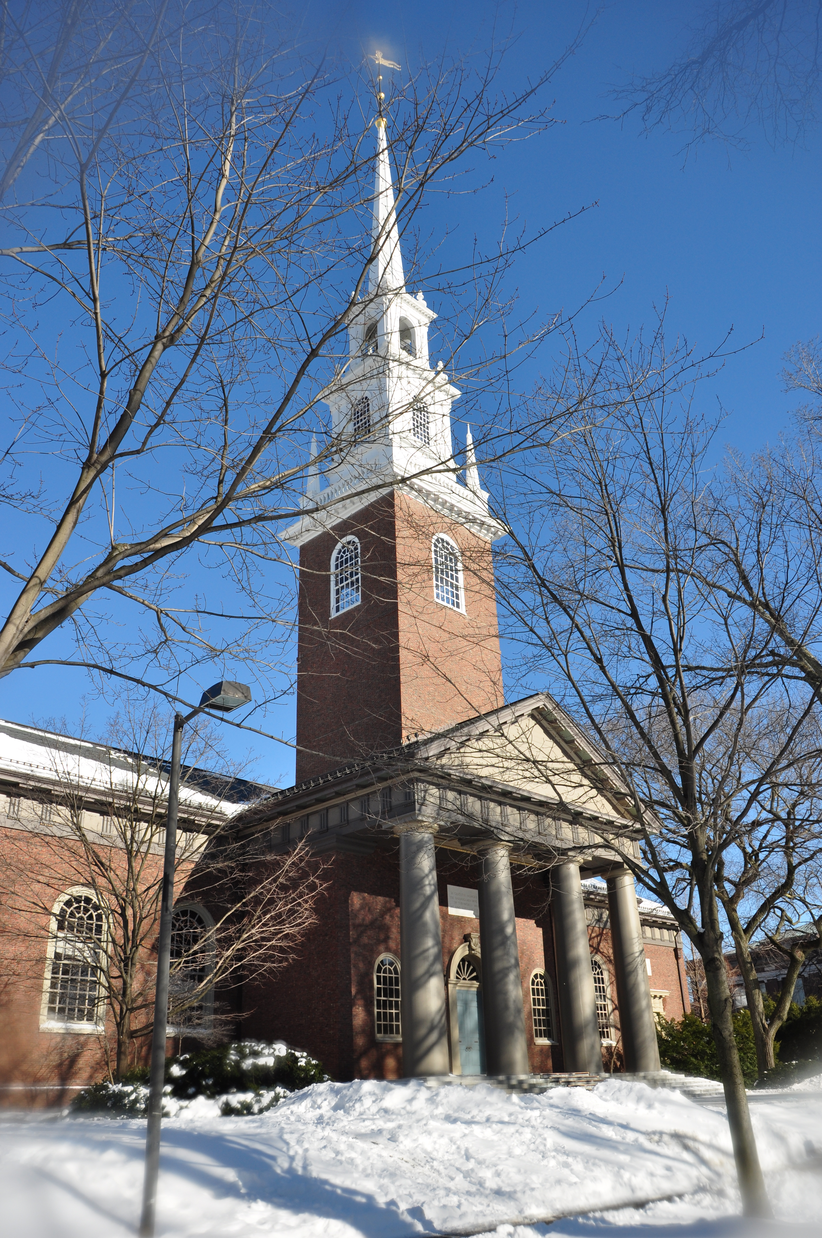 Harvard Memorial Church 2009 winter